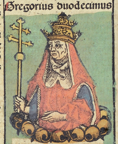 Illustration from the Nuremberg Chronicle (Latin copy in Sao Paulo)